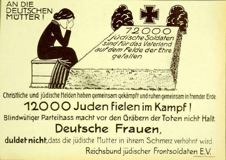 "12,000 Jewish soldiers died on the field of honor for the fatherland. "Christian and Jewish heroes fought together and lie together on foreign soil. 12,000 Jews fell in battle. Blind, enraged Party hatred does not stop at the graves of the dead. German Women: Do not allow the suffering of Jewish mothers to be mocked! The Reich Association of Jewish Veterans" [Front-line Soldiers] Title: To all German mothers! 12,000 Jews were killed in action! Date: app. 1920 Place: Berlin * Material/Technique: Leaflet, printed. Size: 20,4 x 28,8 cm